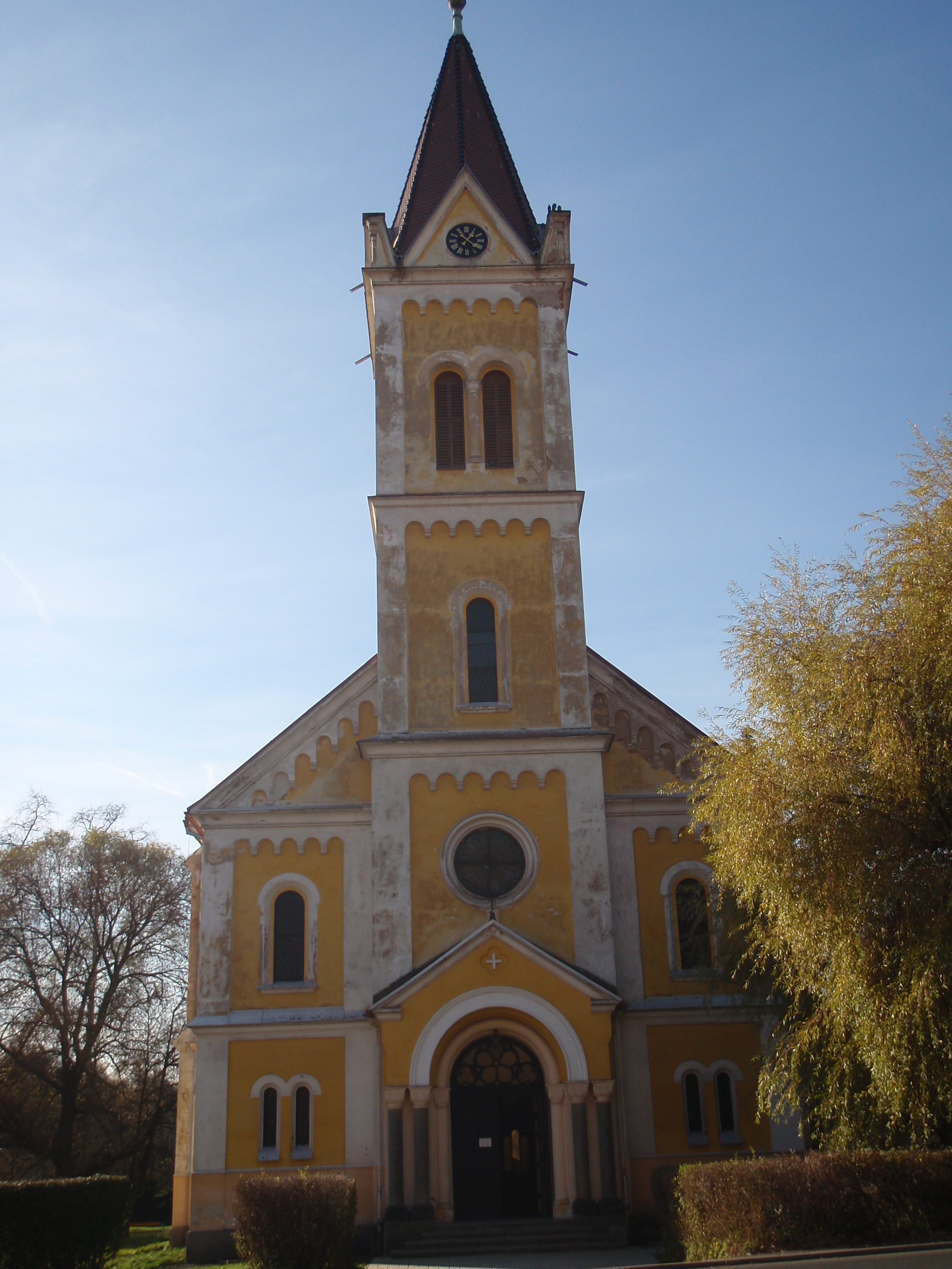 Stará Role, Karlovy Vary District, Church of the Ascension